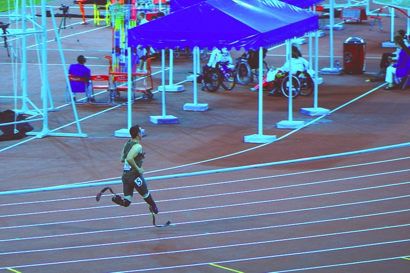 2008 Summer Paralympics - Athletism - Beijing National Stadium.jpg